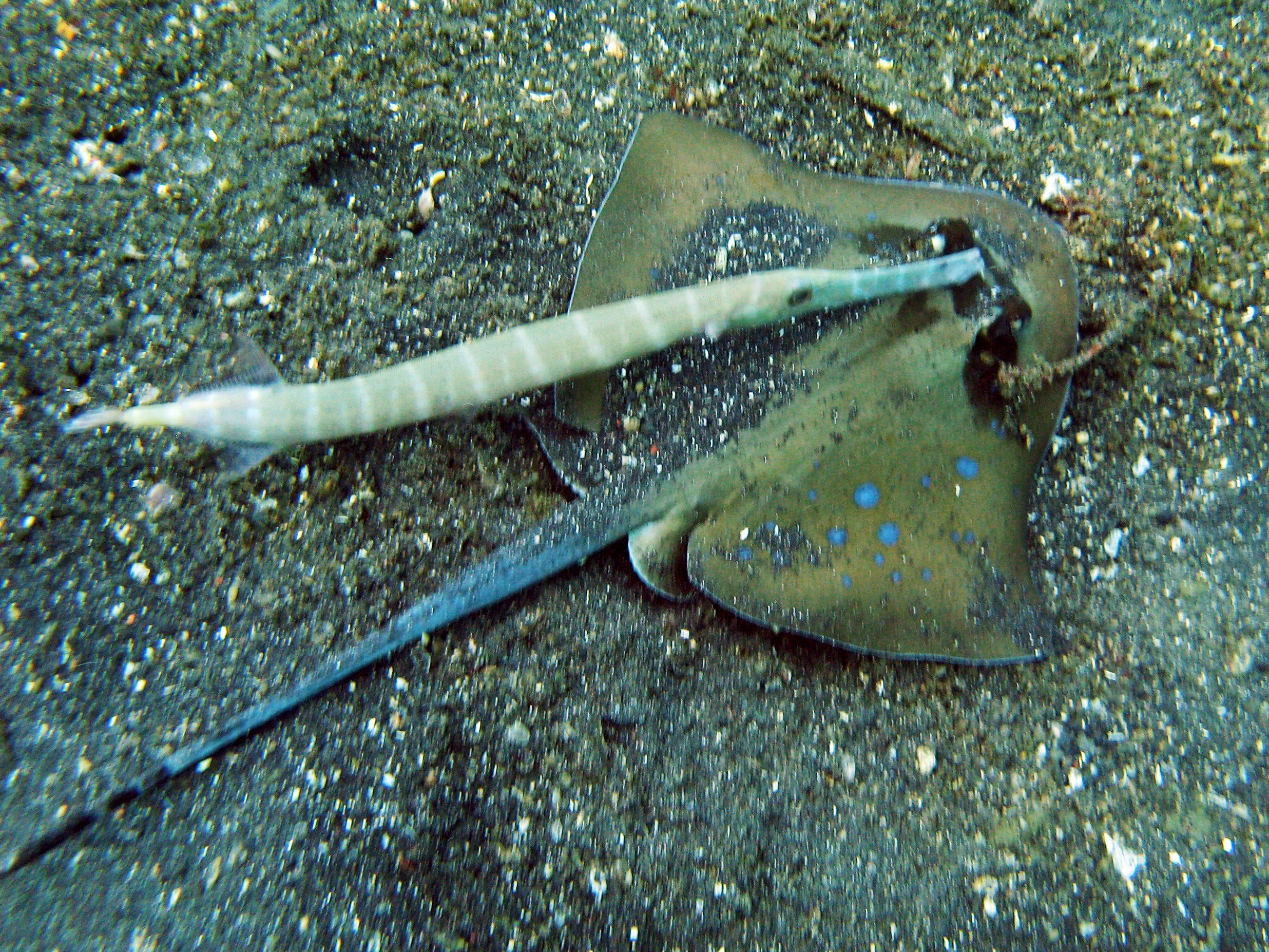 Bluespotted stingray (Neotrygon kuhlii) being shadowed by a trumpetfish, off Indonesia.